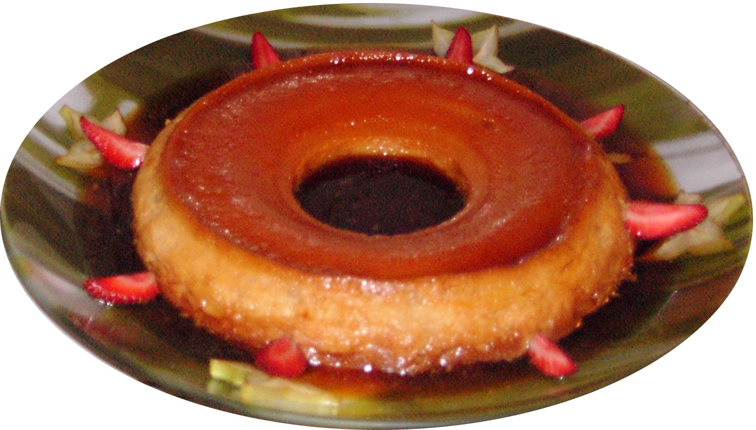 Brazilian milk pudding (flan) with caramel sauce